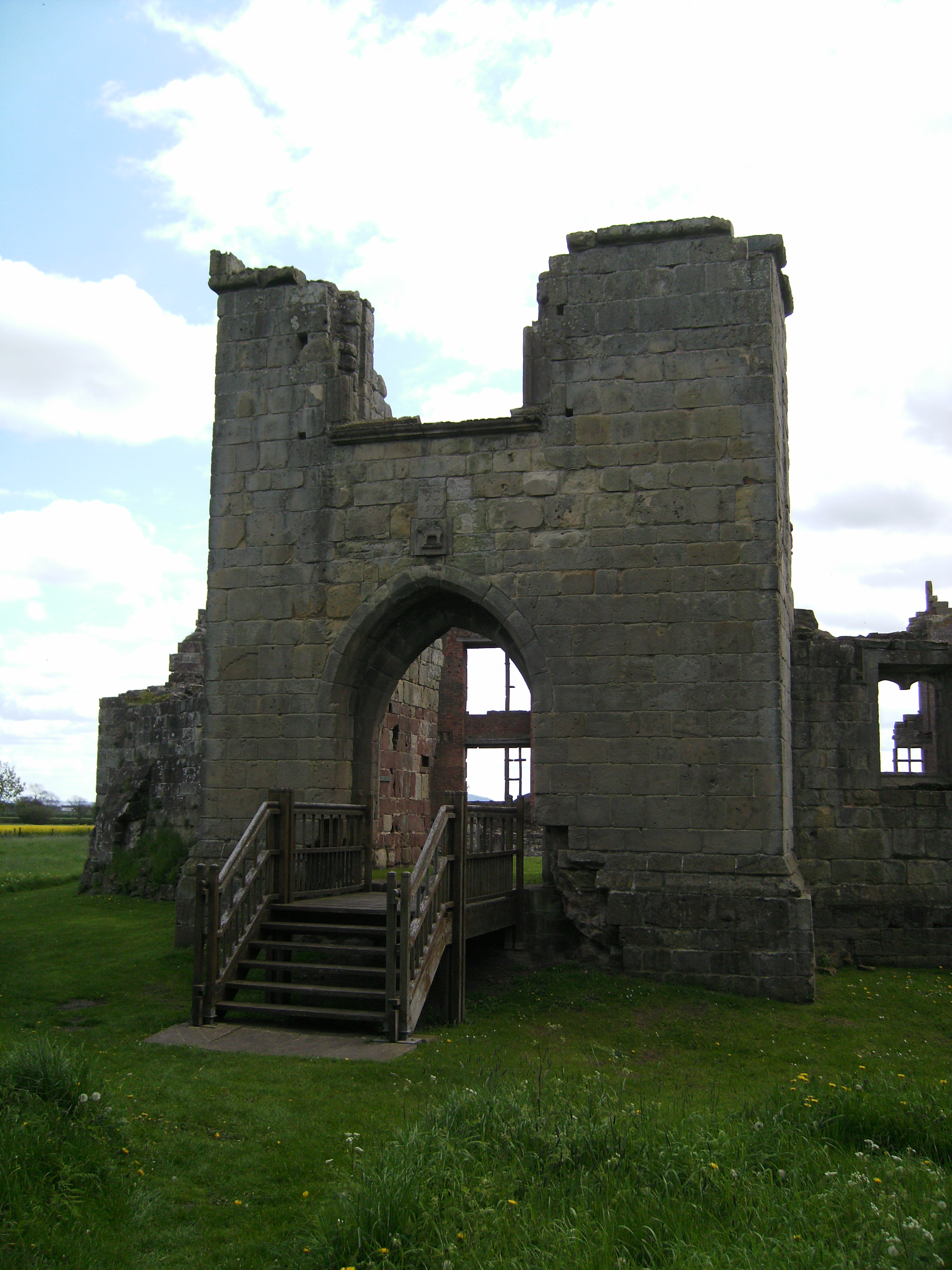 Exterior of medieval gatehouse, viewed from north. Moreton Corbet Castle, Shropshire.